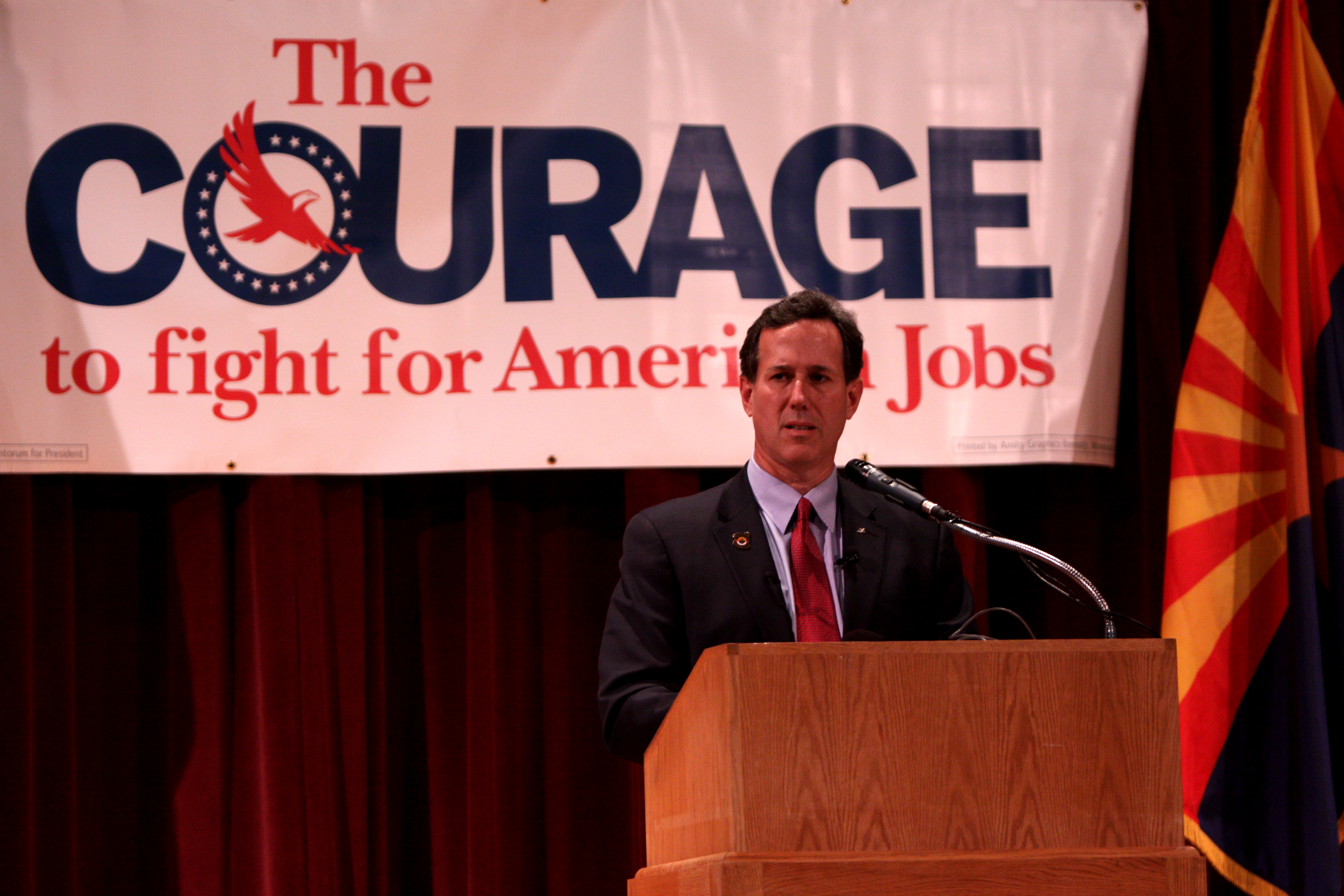 Rick Santorum speaking at a rally in Phoenix, Arizona on February 21, 2012.